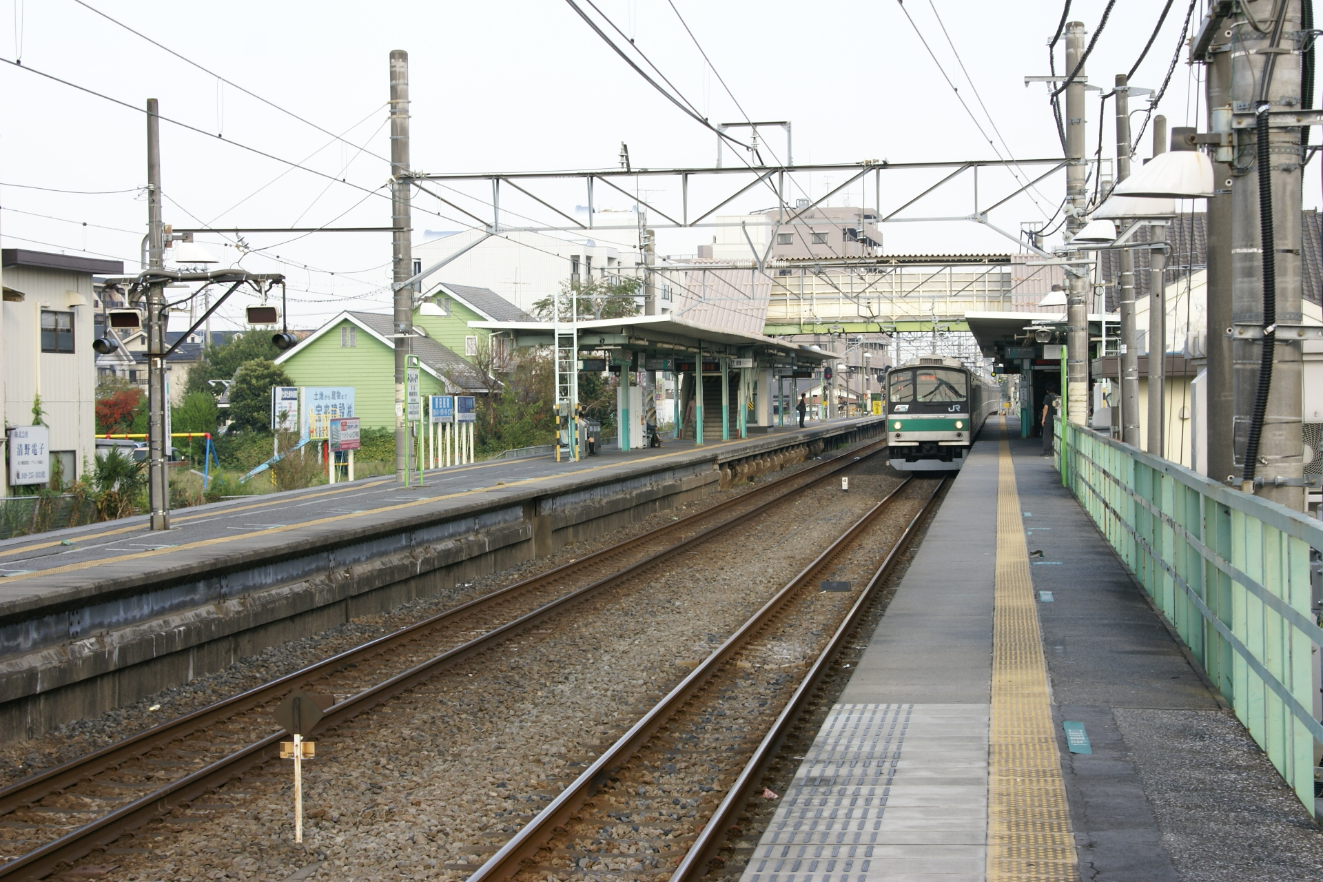 View of Minami-Furuya Station on the Kawagoe Line, looking east (toward Omiya), with a Kawagoe-bound Saikyo Line 205 series train arriving at platform 1